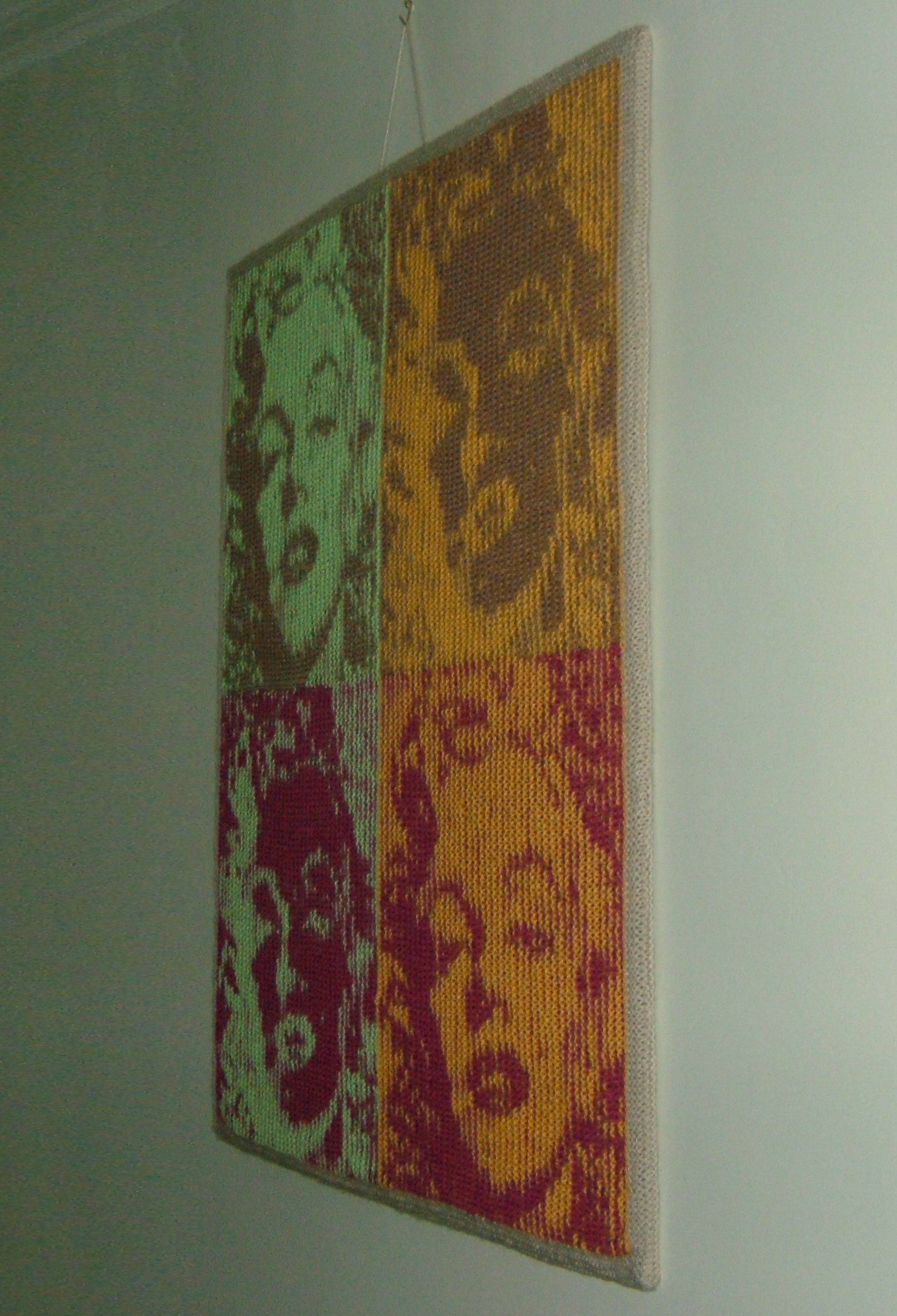 Marilyn Monroe Illusion. Designed and knitted by Steve Plummer in 2010, inspired by Andy Warhol.